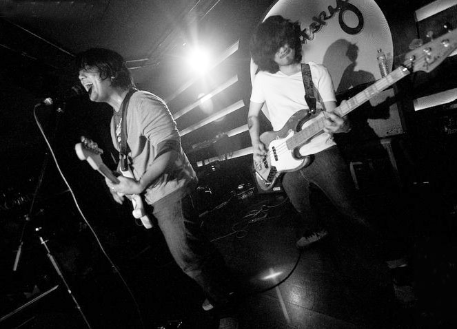 Sandwash performing at Blacksheep, 2010